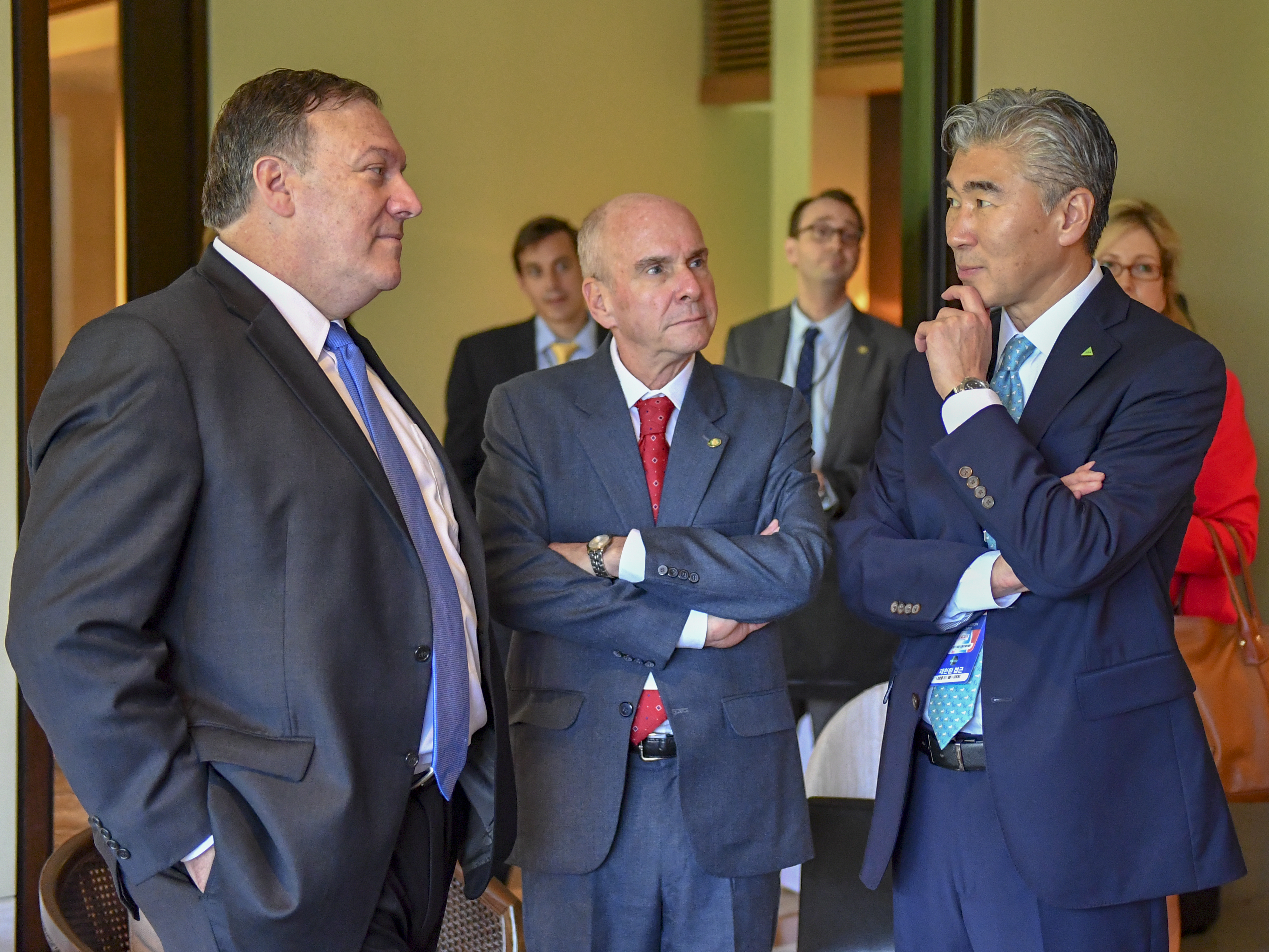 U.S. Secretary of State Mike Pompeo chat with U.S. Ambassador to the Philippines Sung Kim behind-the-scenes at the Singapore Summit in Singapore on June 12, 2018. [State Department photo/ Public Domain]